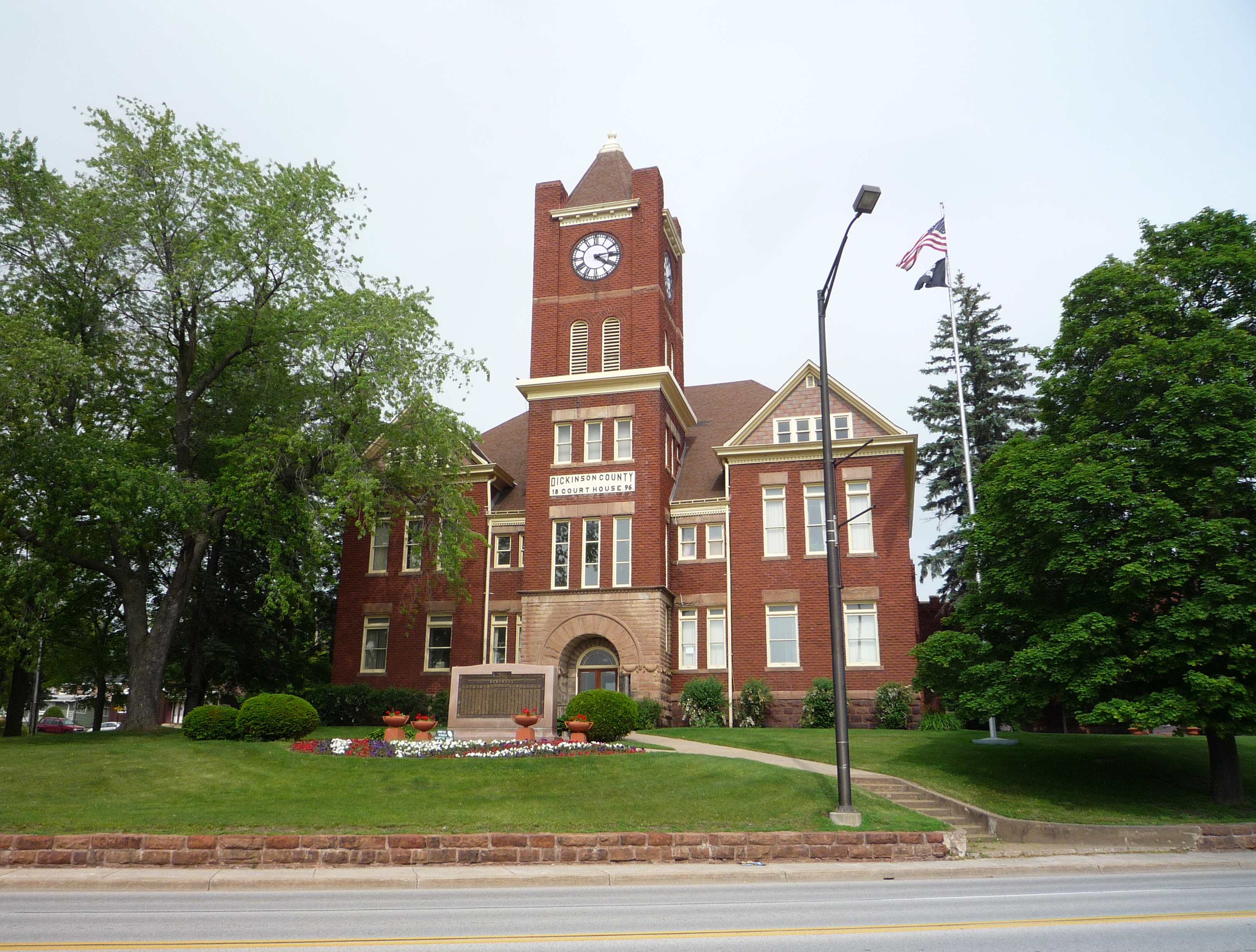 Dickinson County Courthouse, Iron Mountain, Michigan, USA along U.S. Route 2.